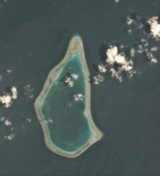 Alicia Annie Reef is an atoll of Spratly Islands.